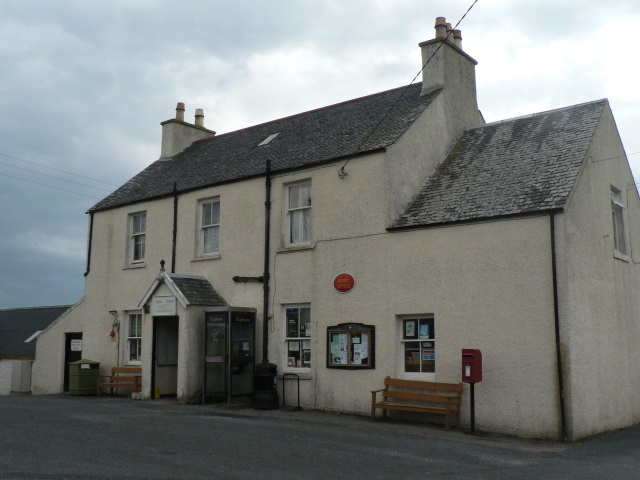 Isle of Gigha: stores/post office and postbox № PA41 45 Village store, post office, postbox and phone box – the centre of village life on the island. The postbox is the only one on the island.